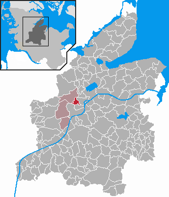 Locator maps of municipalities in Schleswig-Holstein - District Rendsburg-Eckernförde